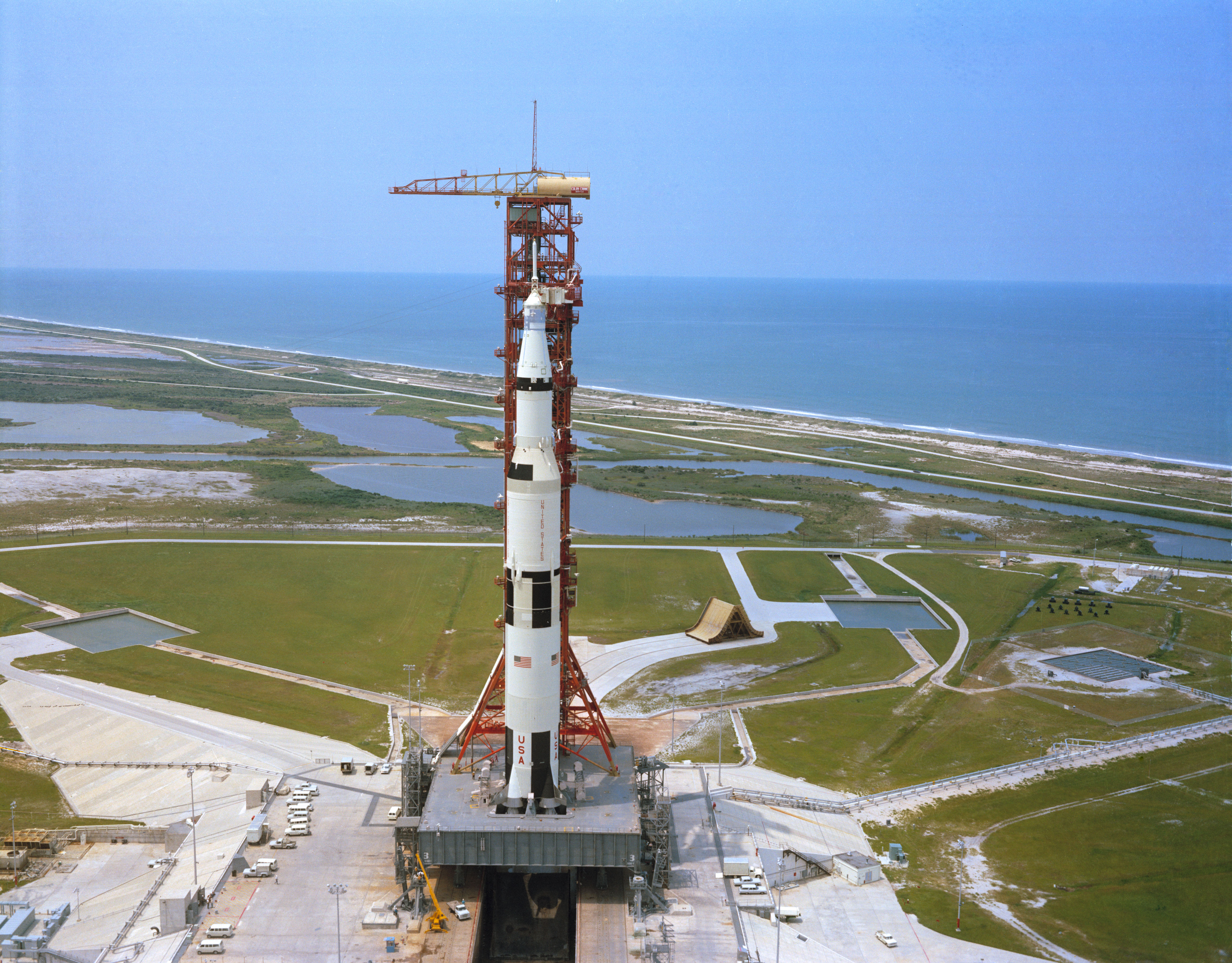 S71-40365 (13 July 1971) --- An aerial view of Pad A, Launch Complex 39, Kennedy Space Center (KSC), showing the 363-feet tall Apollo 15 (Spacecraft 112/Lunar Module 10/Saturn 510) space vehicle sitting on the pad. This photograph was taken during Apollo 15 Countdown Demonstration Test (CDDT) activity. Apollo 15 is scheduled as the fourth manned lunar landing mission by the National Aeronautics and Space Administration (NASA). The crew men will be astronauts David R. Scott, commander; Alfred M. Worden, command module pilot; and James B. Irwin, lunar module pilot. While astronauts Scott and Irwin descend in the Lunar Module (LM) to explore the moon, astronaut Worden will remain with the Command and Service Modules (CSM) in lunar orbit.